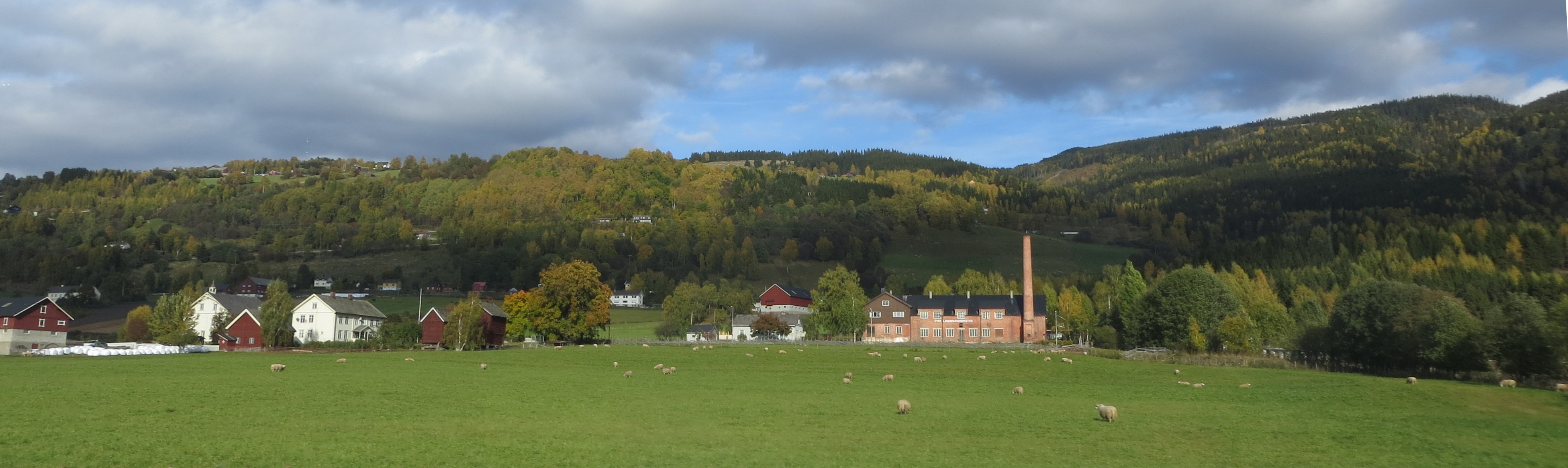 Image from the municipality of Øyer, Oppland county, east Norway.